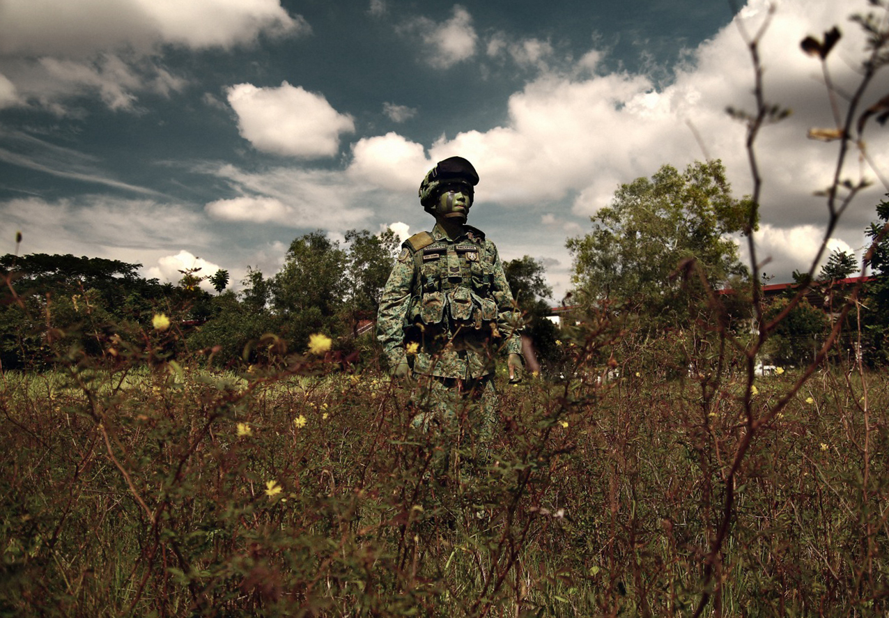 A soldier in a Singapore Army uniform and integrated load bearing vest (iLBV).